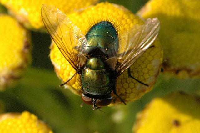 Lucilia caesar from Commanster, Belgian High Ardennes .